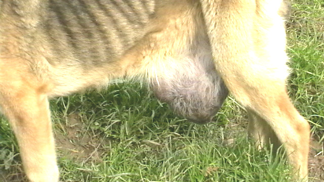 9-months-old mammary tumor in a bitch Walon: magnant må ås tetes di dispu 9 moes a ene lexhe